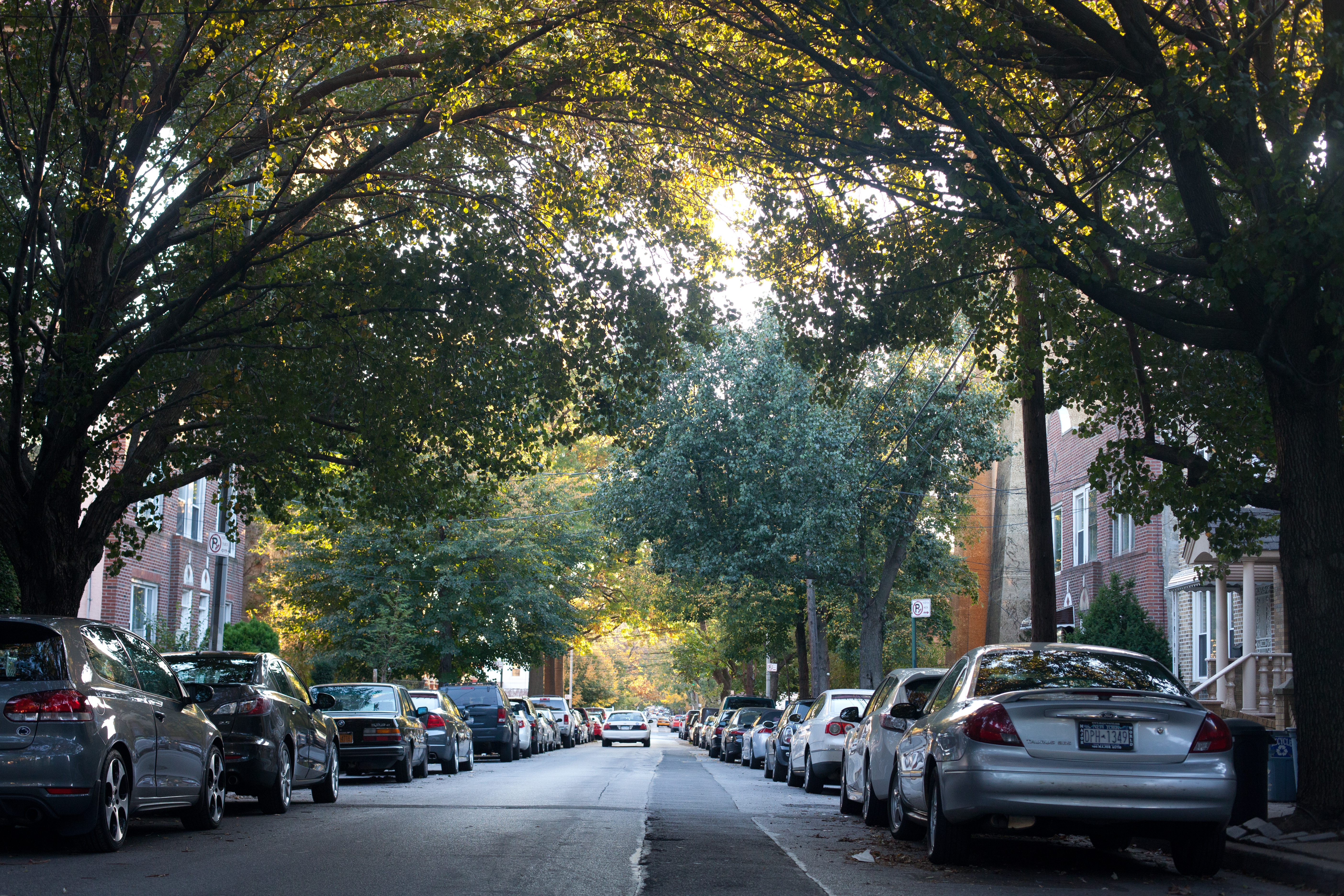 Residential Street in Ditmars, Queens, looking South. Taken in October of 2012.